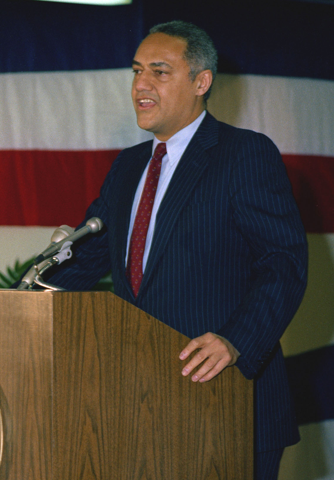 Former Secretary of the Army Clifford Alexander, Jr., who served as secretary from February 14, 1977, to January 20, 1981, addresses guests at a ceremony for the unveiling of his official portrait at the Pentagon.